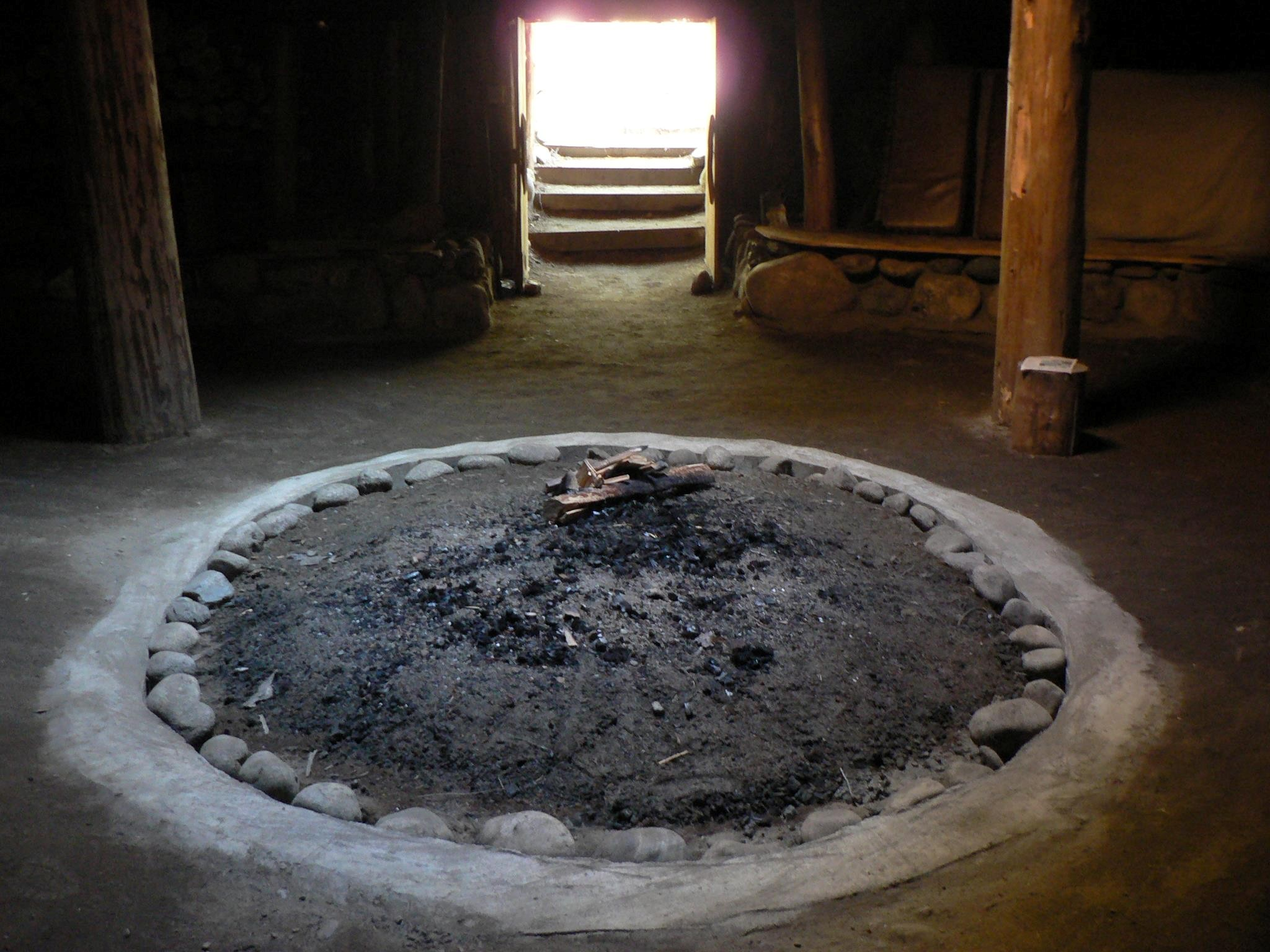 Interior of a Sinixt pithouse in the Slocan Valley. This pithouse, which was reconstructed along traditional lines, is used by Sinixt Nation members for traditional ceremonies and celebrations. Other information I took this picture- it is my own work; I authorize its use on Wikipedia.